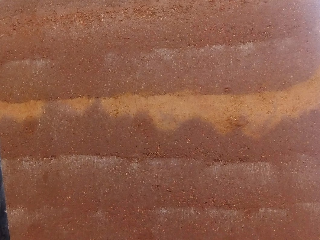 Rammed Earth wall with yellow oxide color